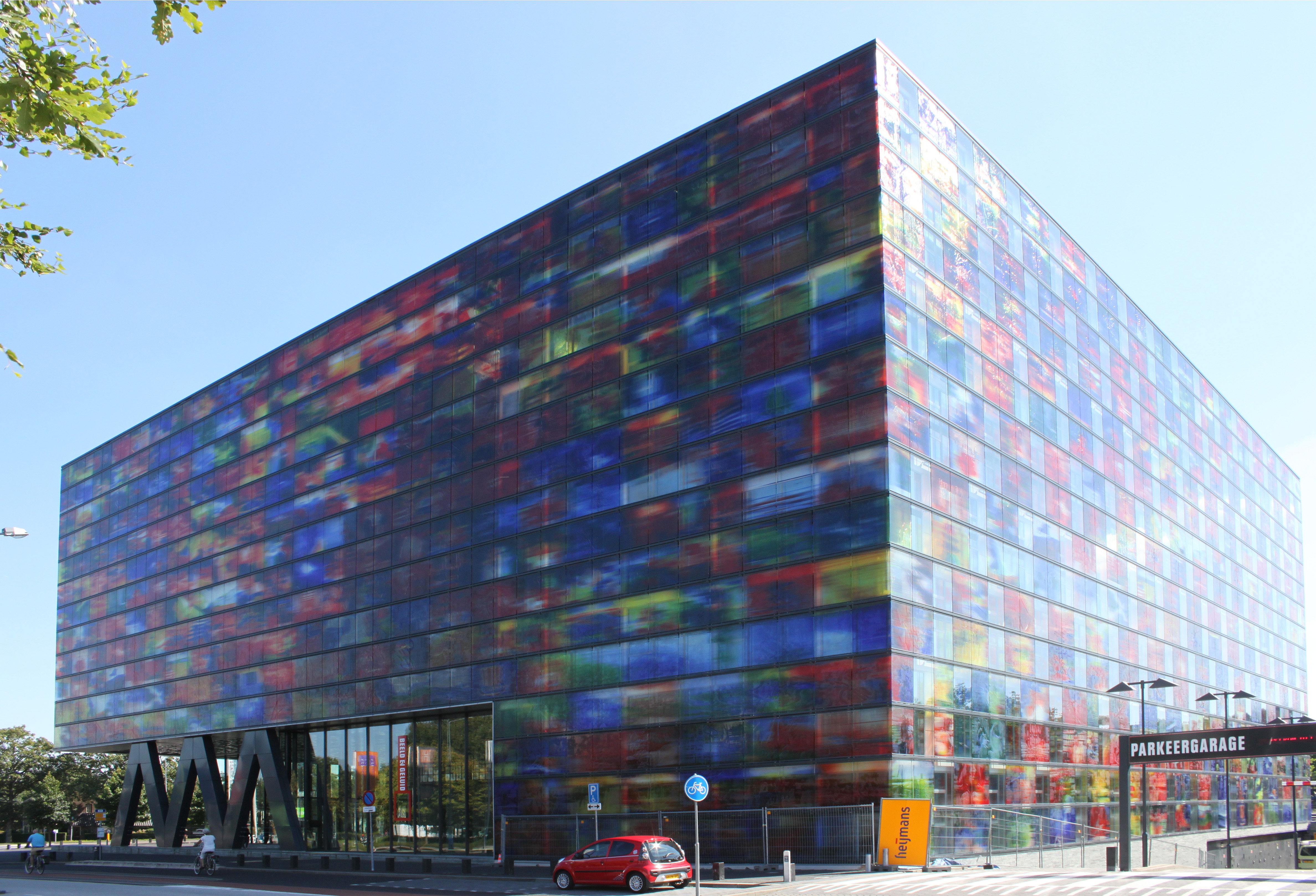 View of the north and west sides of the Netherlands Institute for Sound and Vision (Nederlands Instituut voor Beeld en Geluid) in Hilversum, the Netherlands.